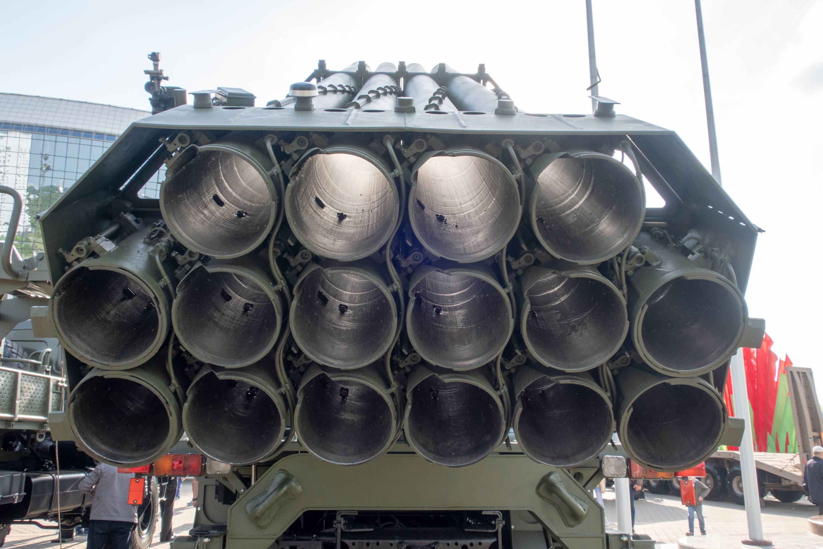 9P140MB Uragan (upgrade made in Belarus). Photo taken at Milex-2019 arms and military machinery exhibition (Minsk, Belarus)